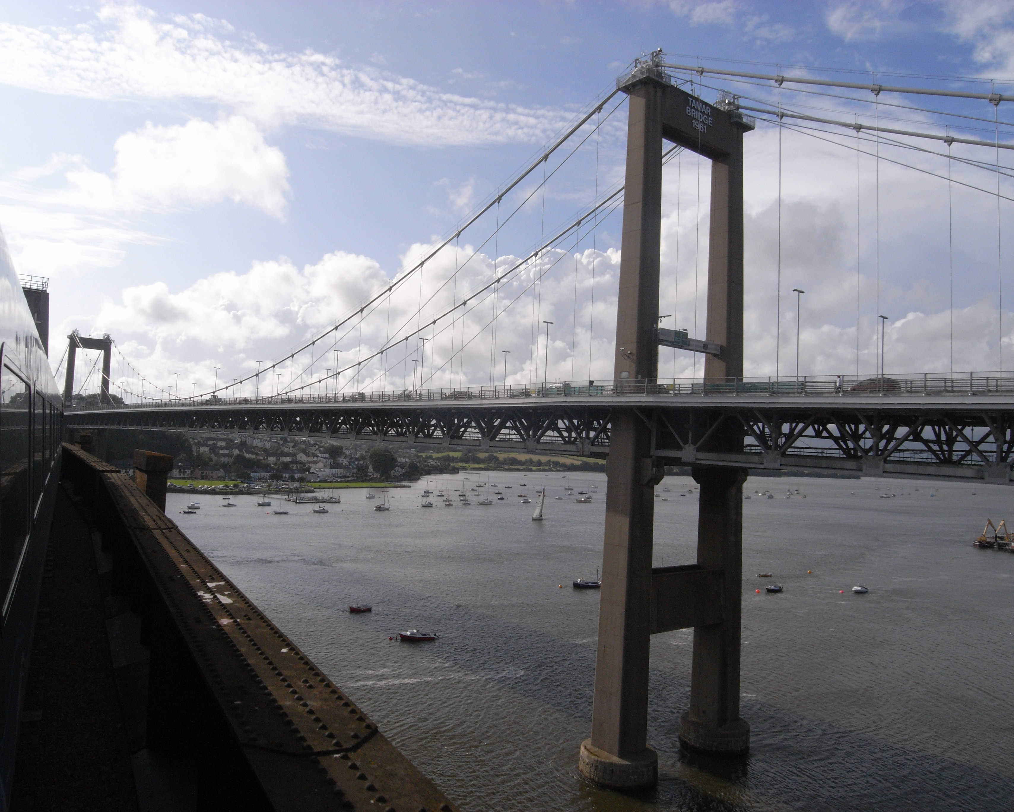 View of the Tamar Bridge taken from a train passing over the neighbouring Royal Albert Bridge, on a sunny July afternoon.